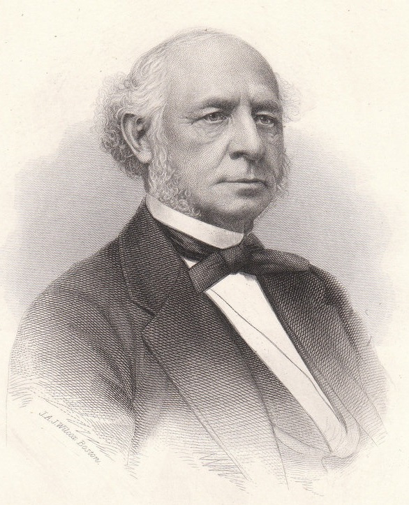 J. Wiley Edmands, Massachusetts Congressman